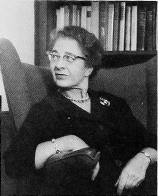 Hilde Bruch, clinical professor of psychiatry